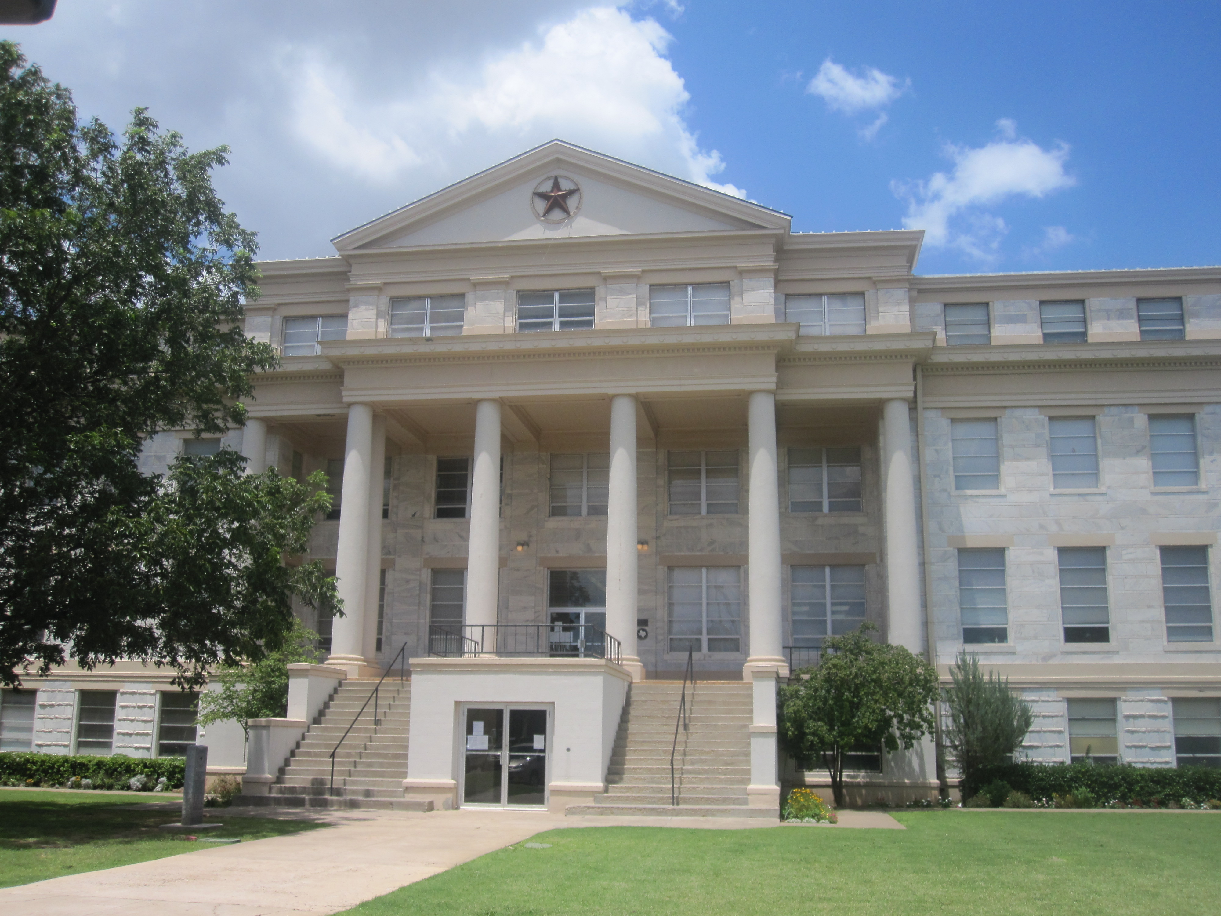 Deaf Smith County Courthouse. I took photo with Canon camera in Hereford, TX.